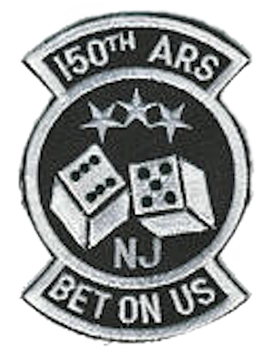 150th Air Refueling Squadron - Legacy Emblem